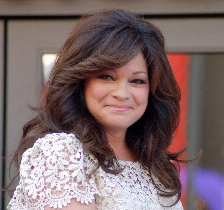 Valerie Bertinelli at a ceremony to receive a star on the Hollywood Walk of Fame.